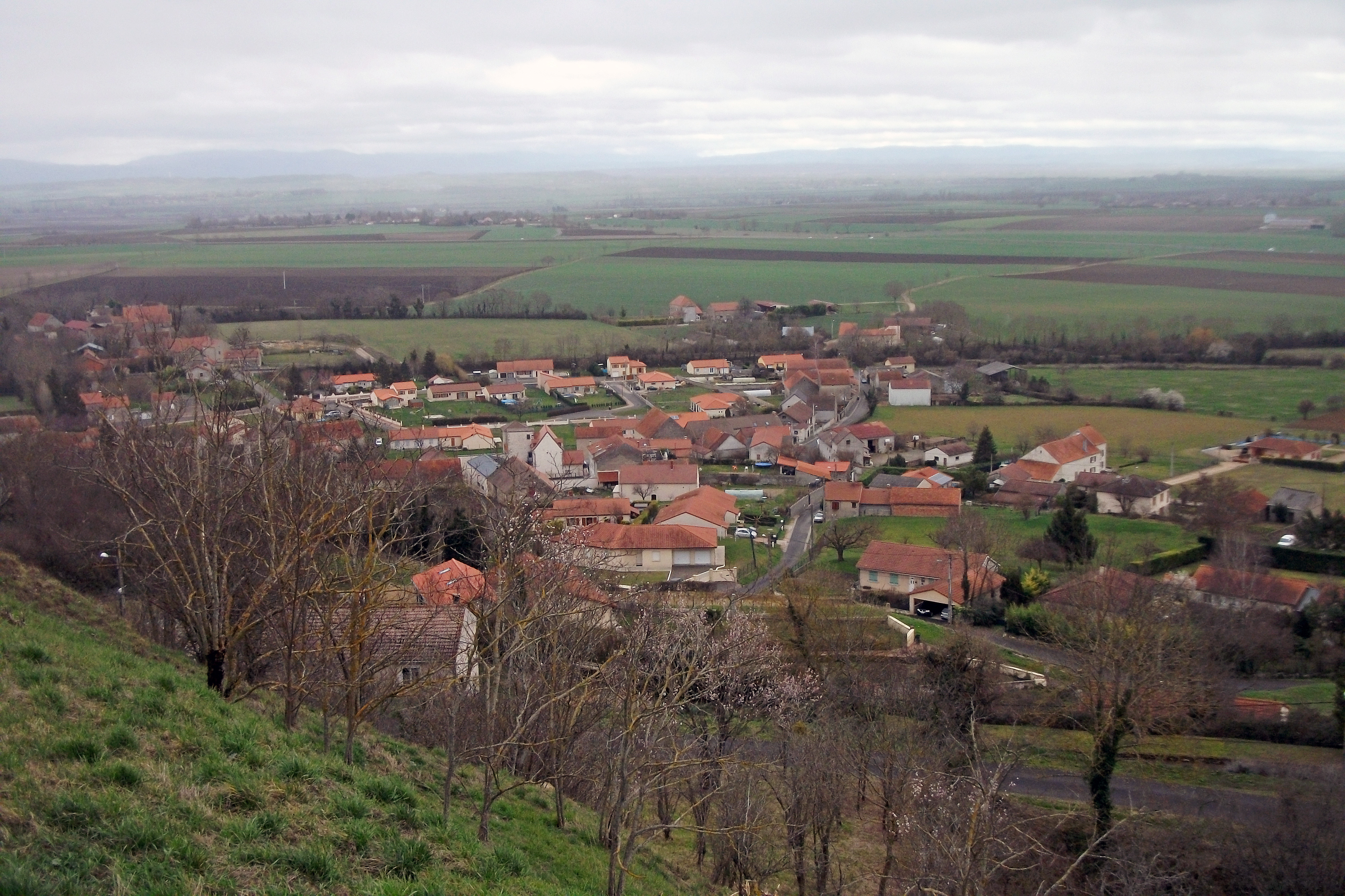 View of Montpensier from the hillock [10059]